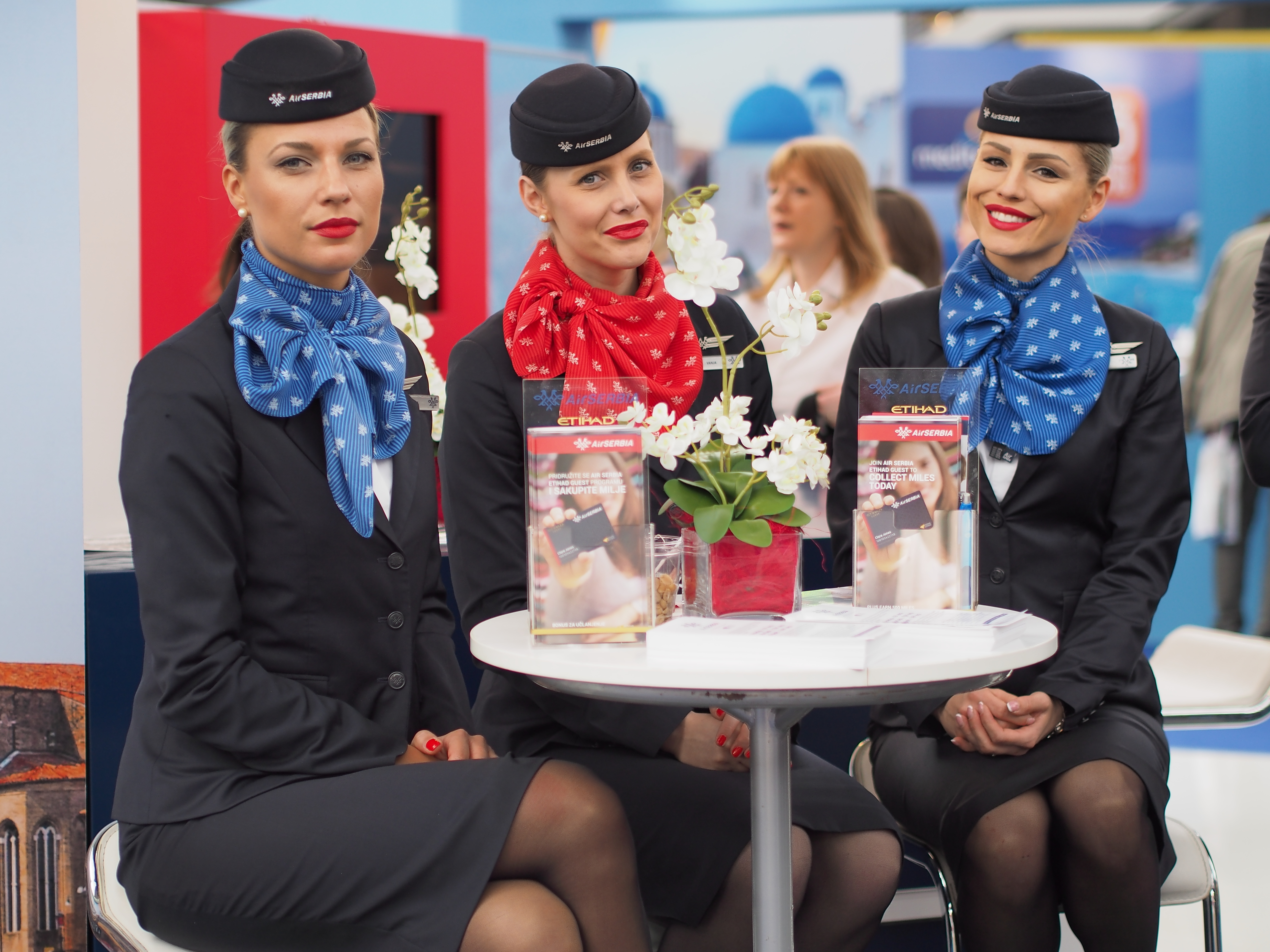 Air Serbia flight attendants, Belgrade. This photograph was taken with an Olympus E-P5